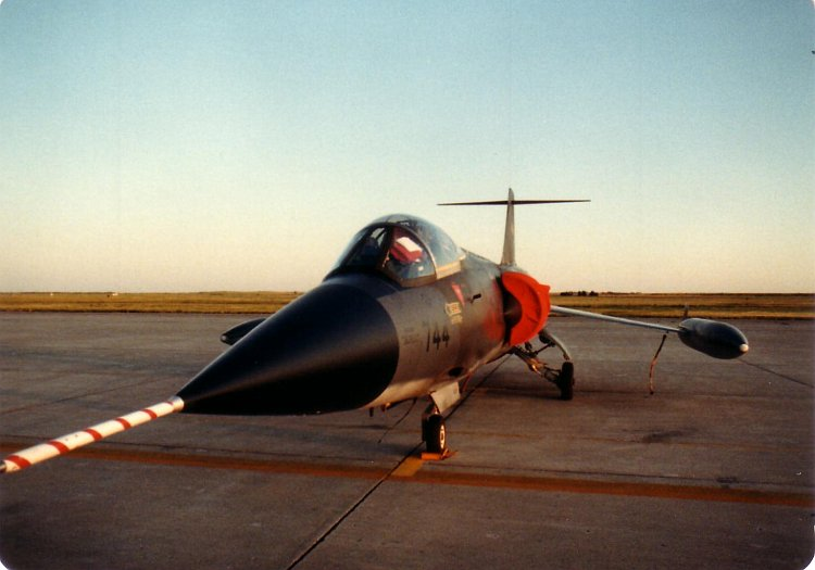 I took this photo of a CF-104 Starfighter at CFB Moose Jaw in 1982